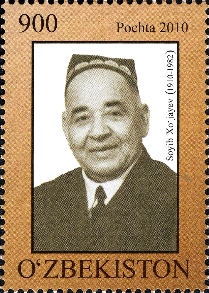 Stamps of Uzbekistan, 2010